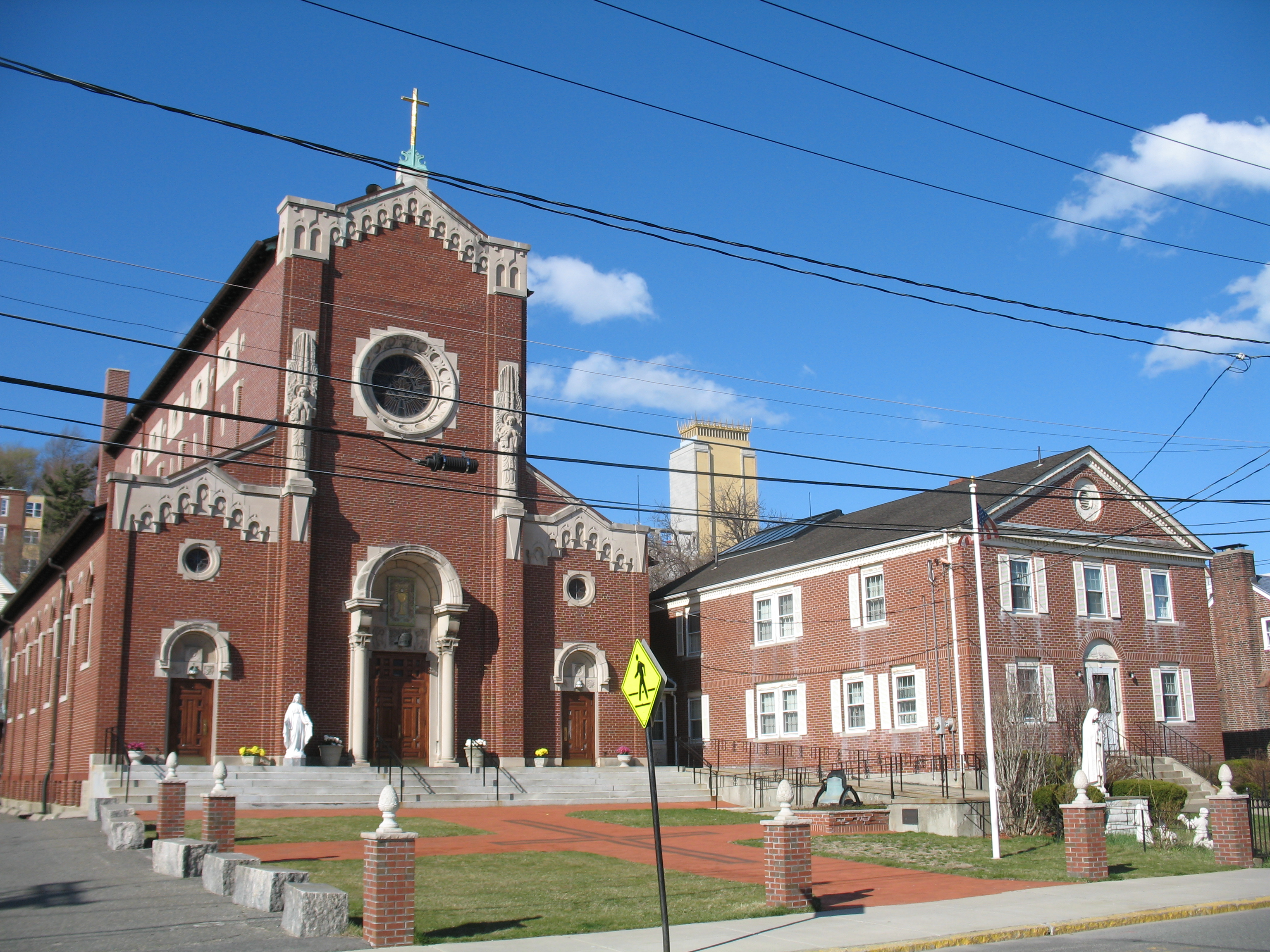 St. Joseph and Lazarus Church --- 59 Ashley Street, East Boston 02128